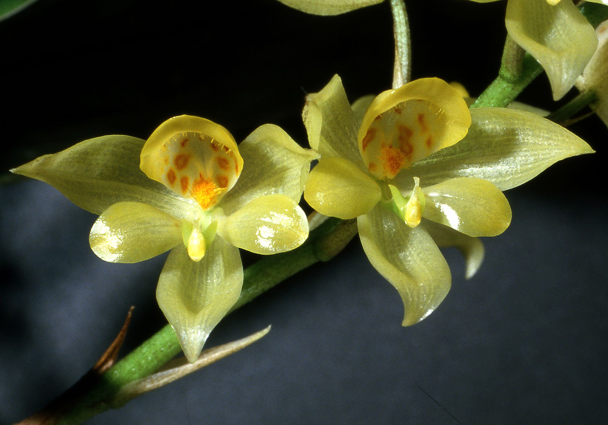 Soterosanthus shepheardii